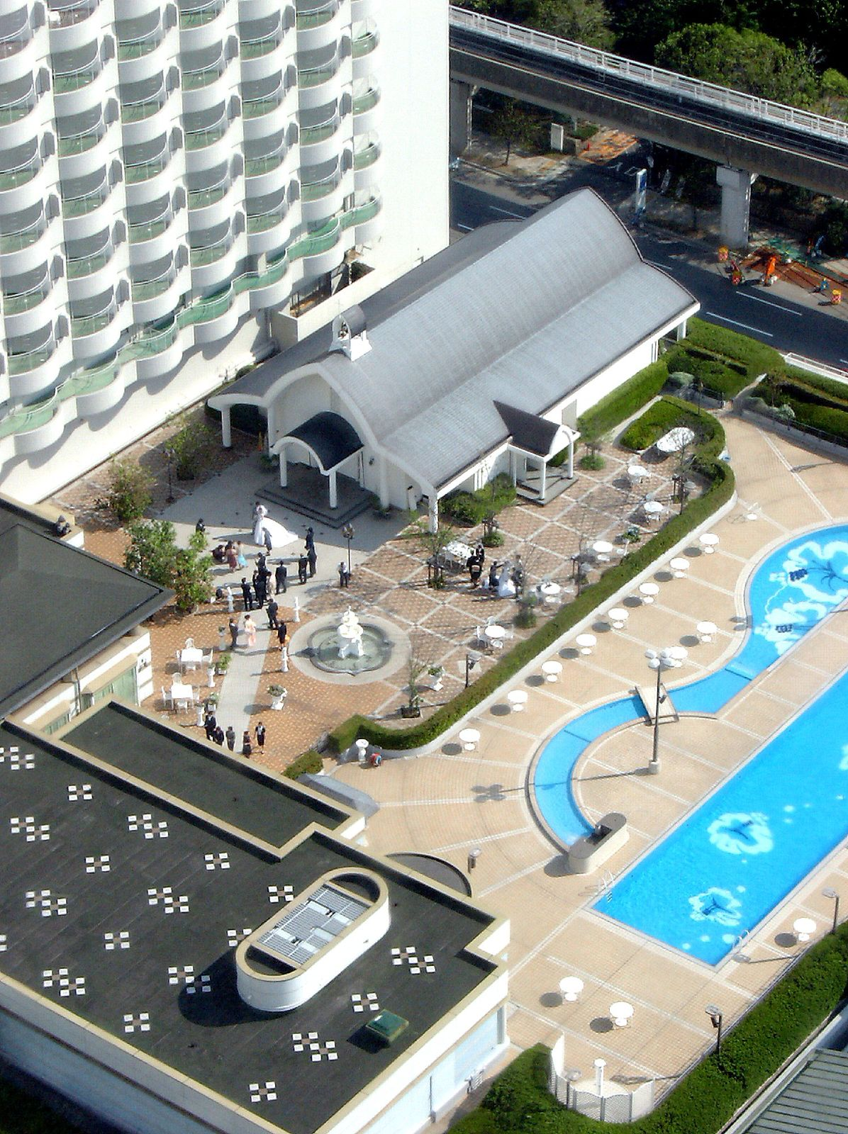 Wedding at Portpia hotel, Kobe.